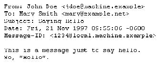 Struktura e një mesazhi të definuar sipas RFC